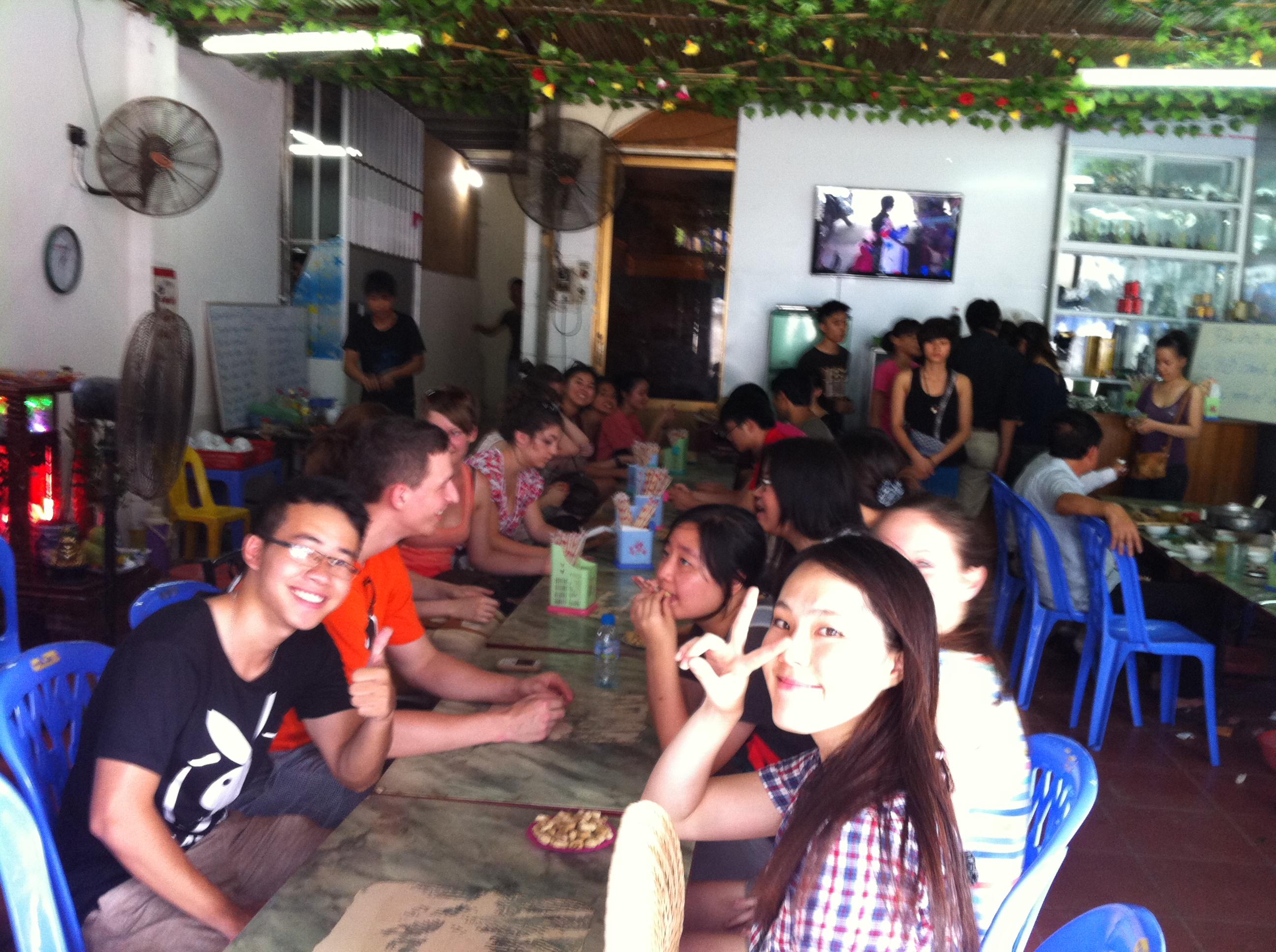 Vietnamese and international AIESECers at 2012 summer in Hanoi